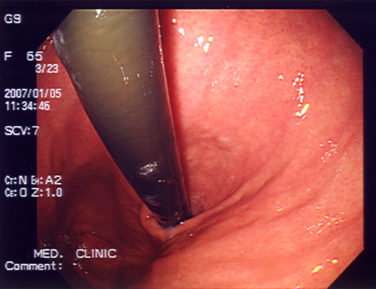 endoscopy image of normal stomach of a healthy 65-years old woman. (cardia) Permission of patient to publish this image was obtained.